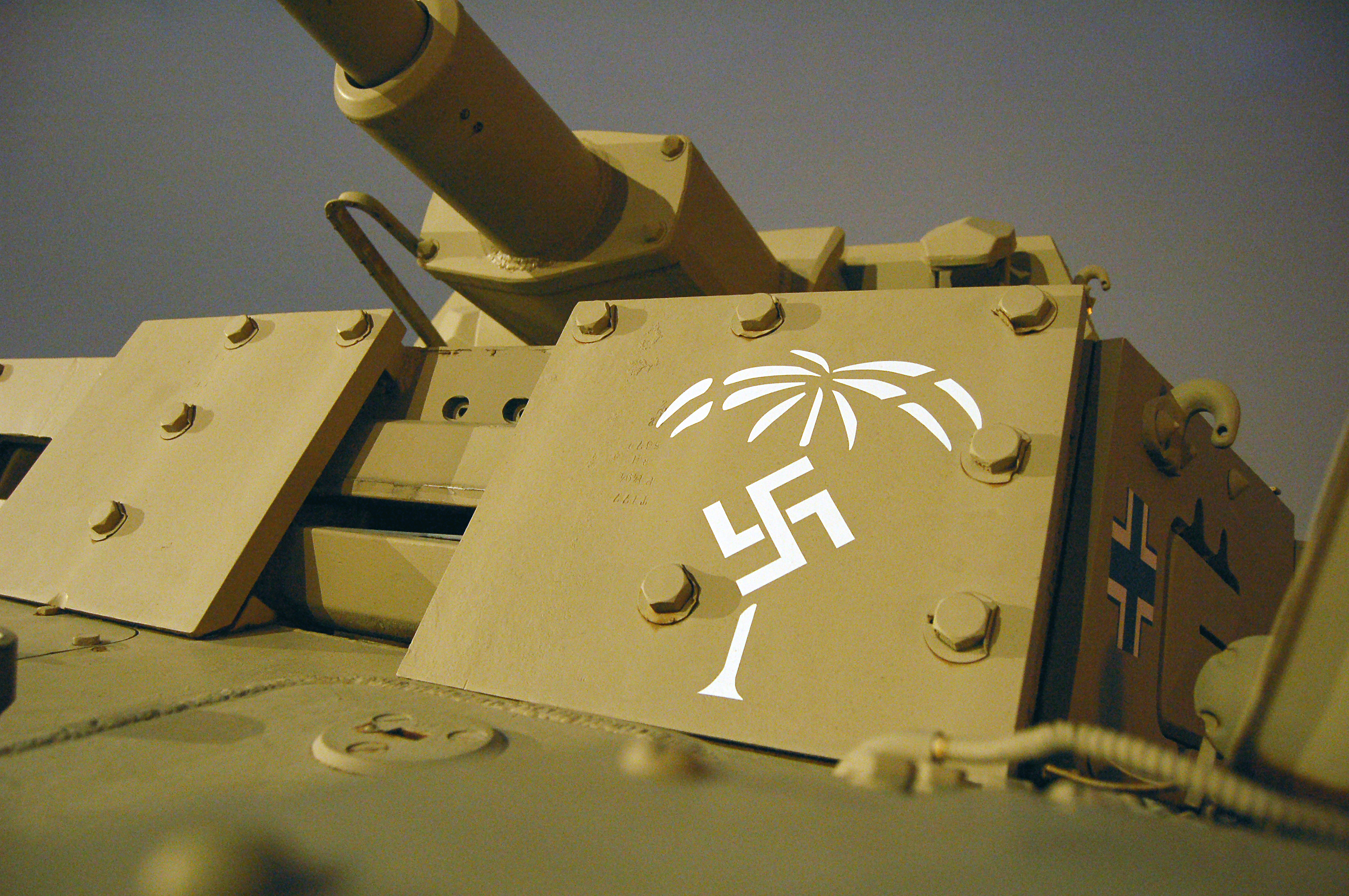 A circa 1939 Panzerkampfwagen IV Ausf. D, painted in desert colors and bearing Afrika Korps markings, with additional armor plate bolted on, a possible field modification. This World War II German tank was photographed at the U.S. Army Ordnance Museum, Aberdeen Proving Ground, MD.